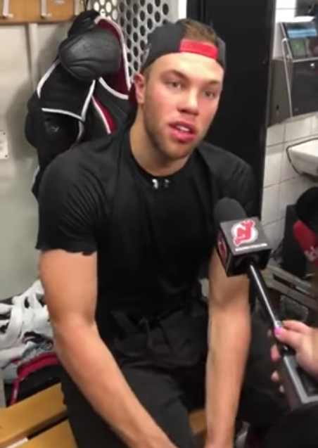 Taylor Hall following exhibition game vs. HC Bern